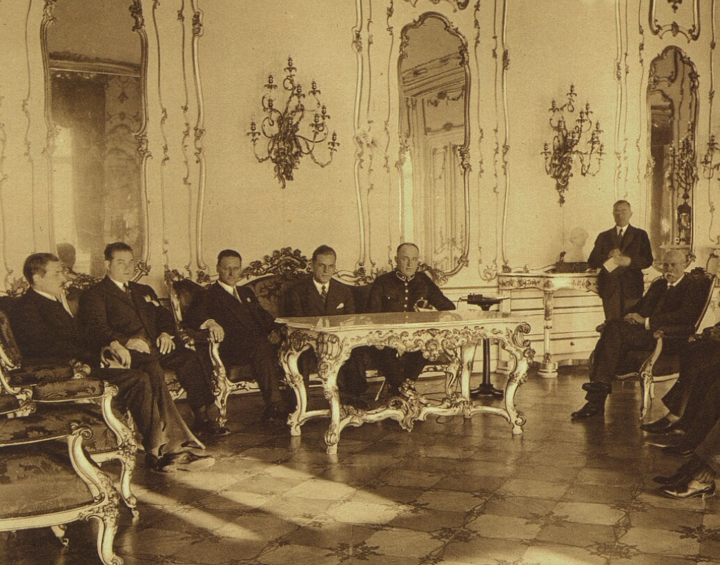 Czechoslovak olympioncs at president Masaryk, 1932